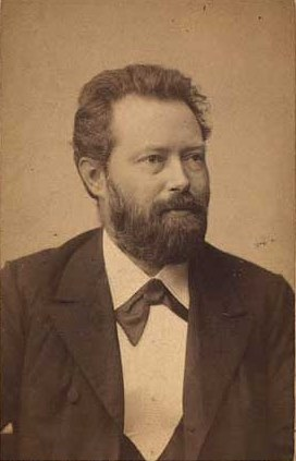 Harald Emil Larsenius Holm (1848-1903), Danish theologian and politician, MP